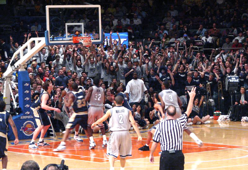 Georgetown University Hoyas players make a baskets against the University of Pittsburgh Panthers in the 2007 Big East men's basketball tournament finals at Madison Square Garden in New York City.